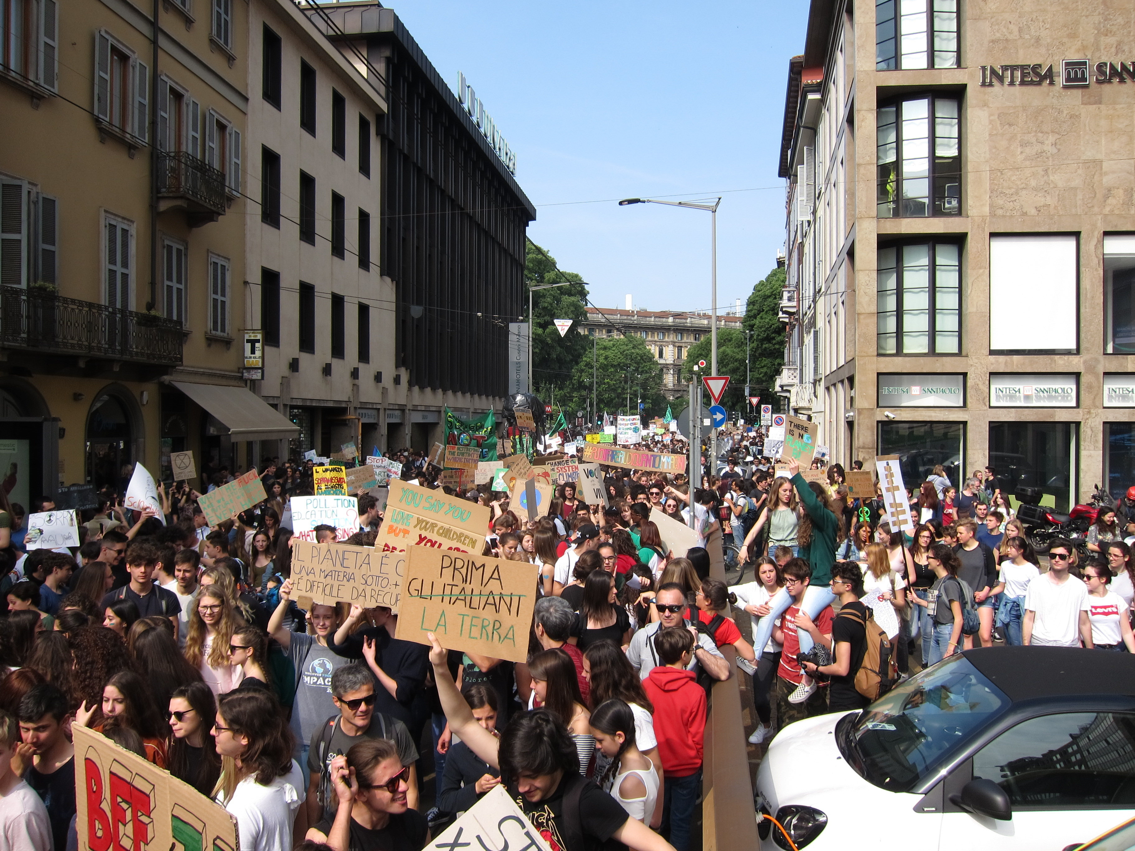 River of students marching in the streets, sign in the front "Prima la terra". The author of the banners are unknown but took part at the public student march in Milan. School strikes for climate took place at the Fridays For Future event in Milan, Italy on the 24th of May in 2019. 2019-05-24